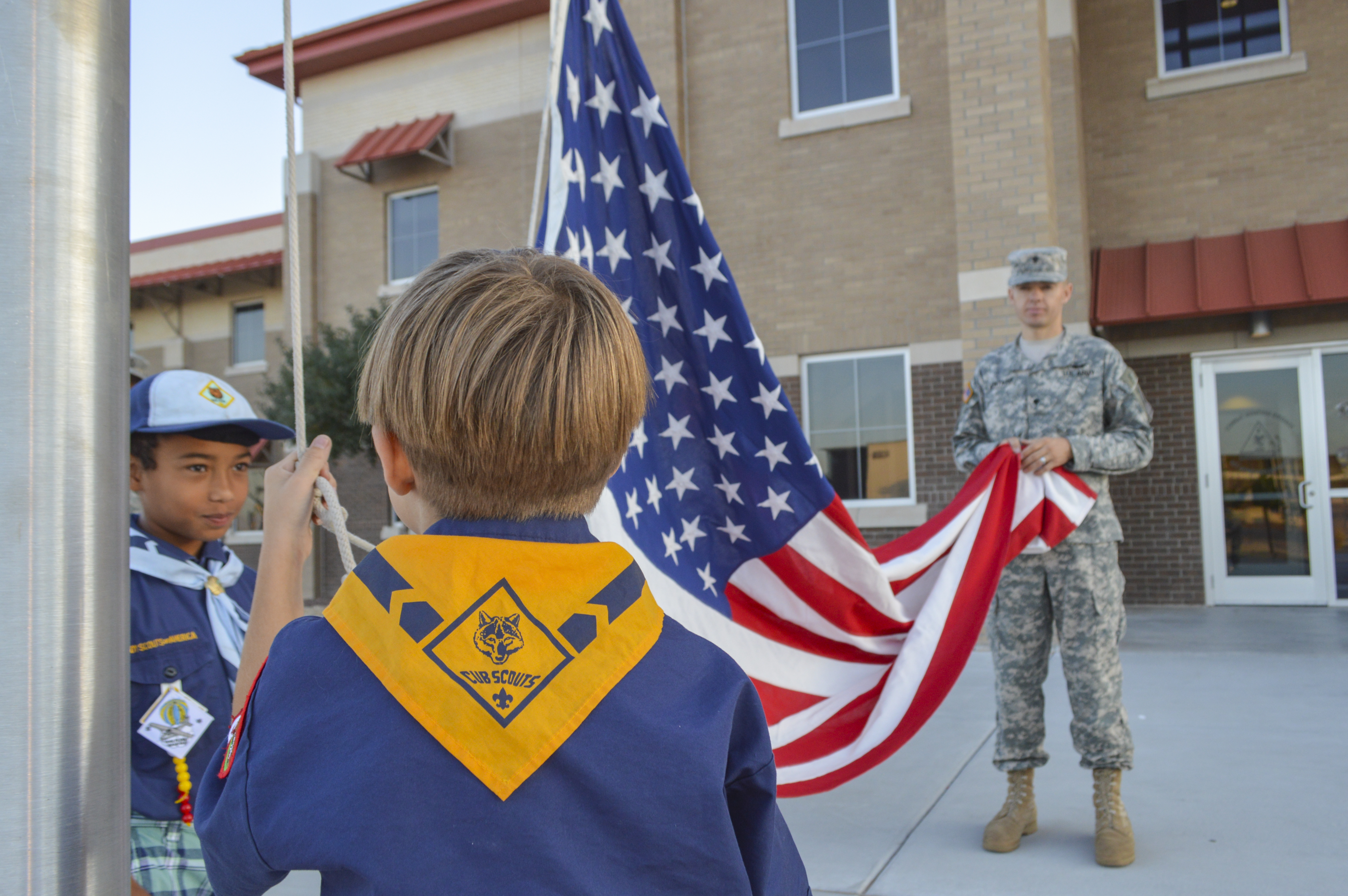 Spc. Samuel Montague, an AH-64, Apache helicopter armament/electrical/avionics systems repairer with Headquarters Headquarters Company, 1st Armored Division Combat Aviation Brigade, awaits for the “To the Colors” call with two Cub Scouts Monday morning June 22, 2015. (U.S. Army photo by Sgt. Jose Ramirez, Combat Aviation Brigade Public Affairs, 1st Armored Division)